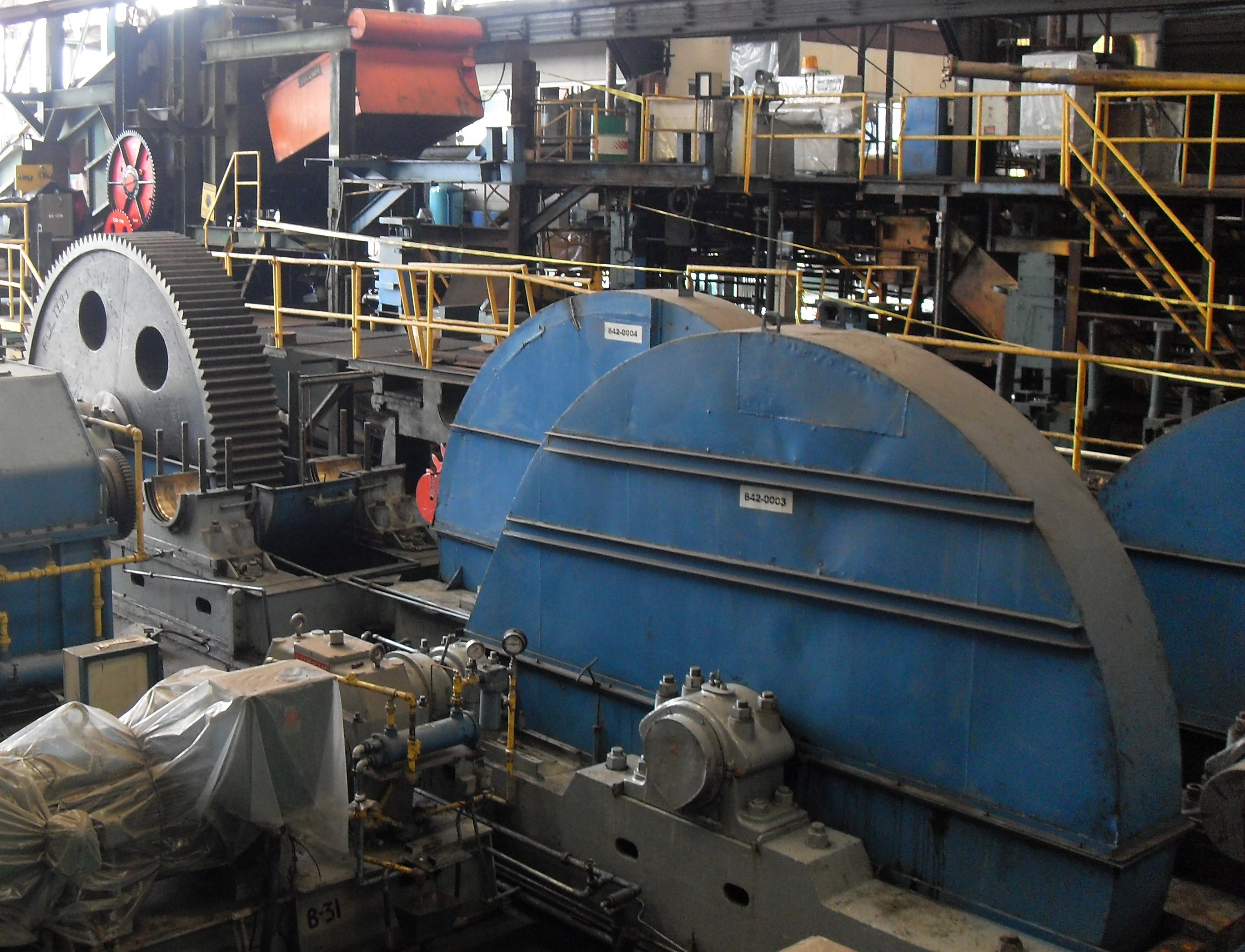 mill house of a sugar cane mill in Guatemala, 2009.